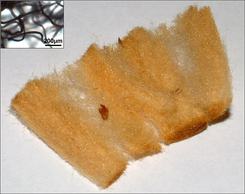 used cellulose acetat filter of a cigarette